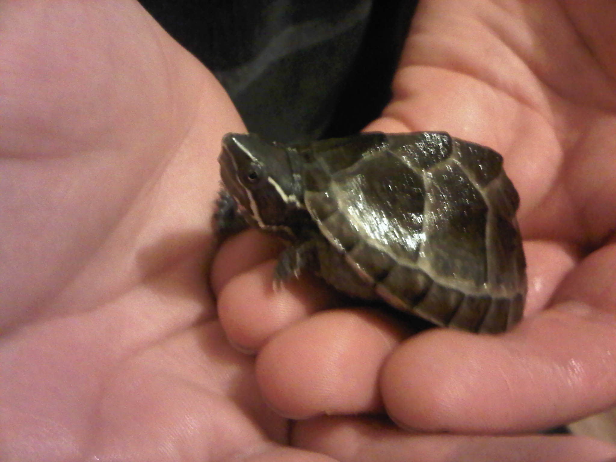 Musk turtle